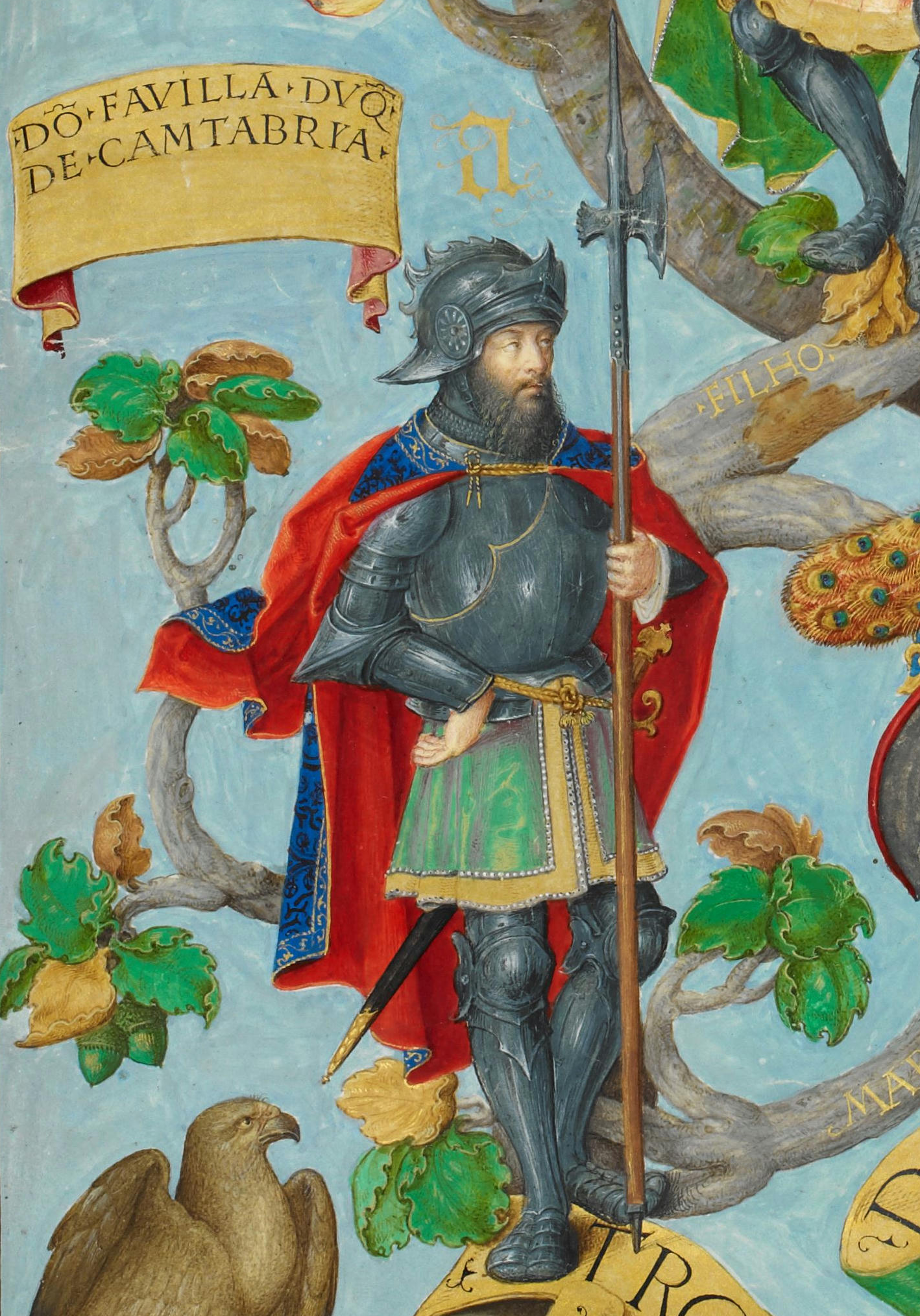 Favila, Duke of Cantabria. Father of Pelagius, first King of Asturias.